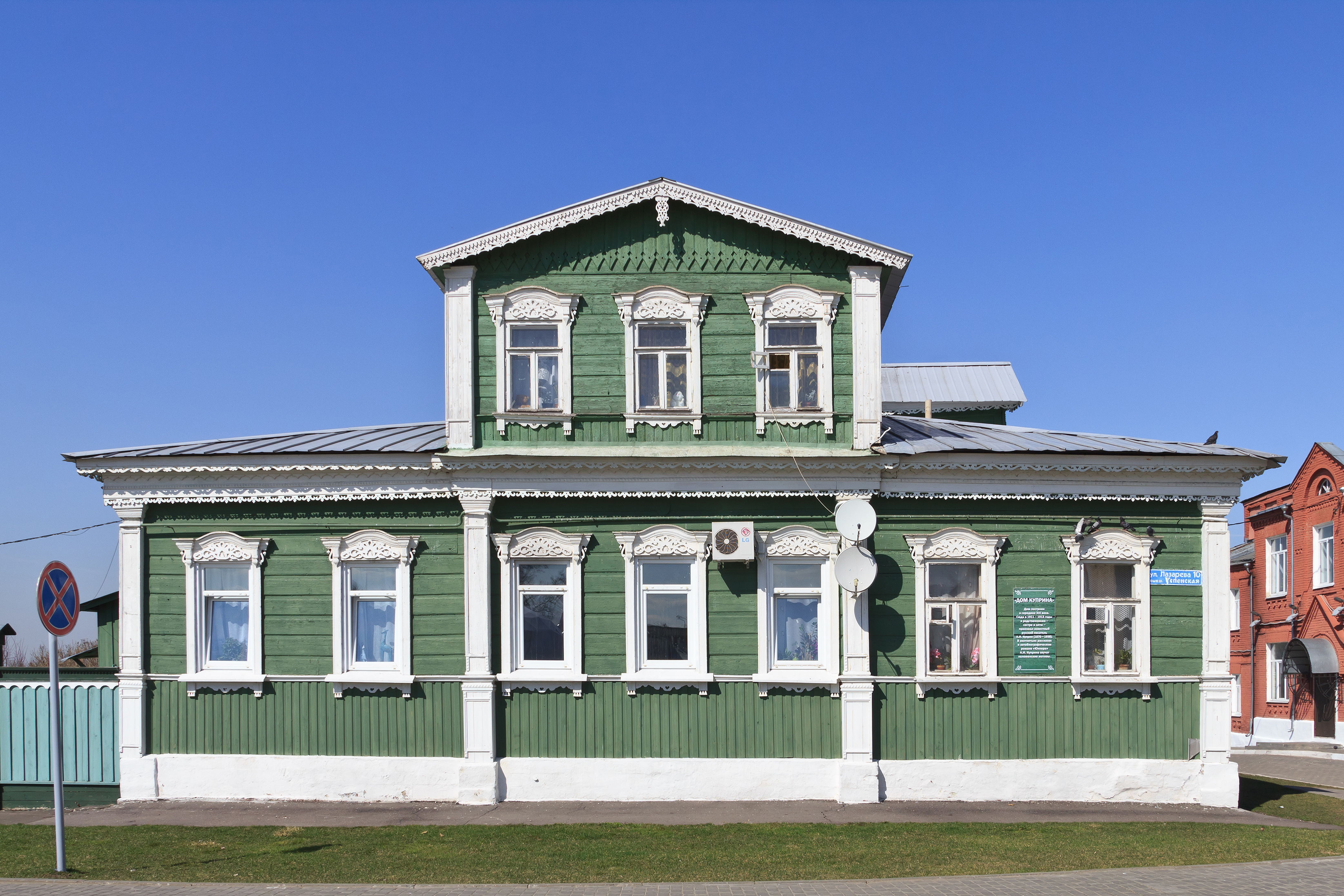 The Kuprin House in the Kolomna Kremlin. Kolomna, Moscow Oblast, Russia.